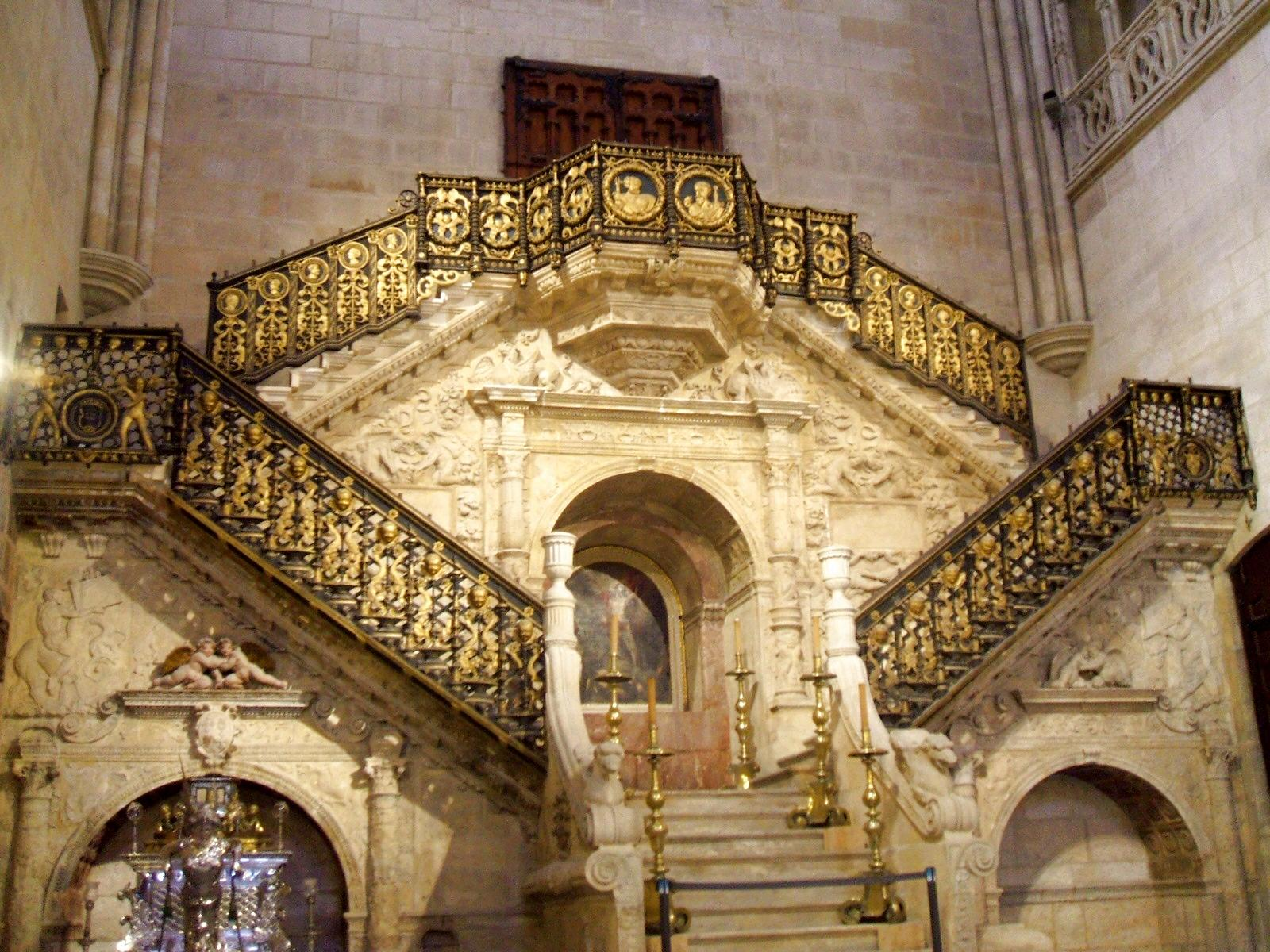 Escalera Dorada, obra renacentista plateresca de Diego de Siloé, en la Catedral de Burgos. España